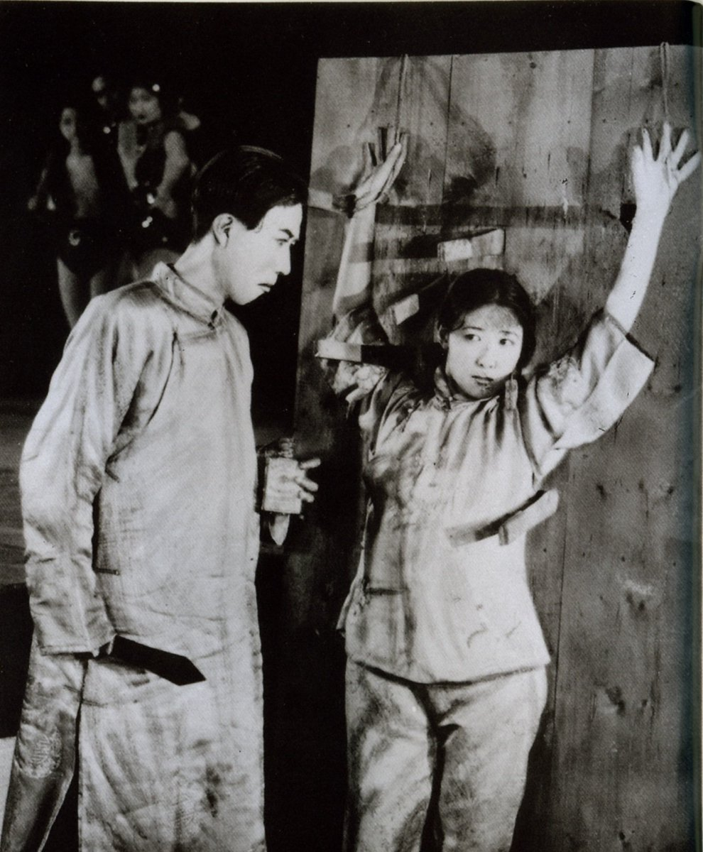 Keiko Takatsu in What Made Her Do It? (Nani ga kanojo o sōsaseta ka 何が彼女をそうさせたか) (1930) directed by Shigeyoshi Suzuki